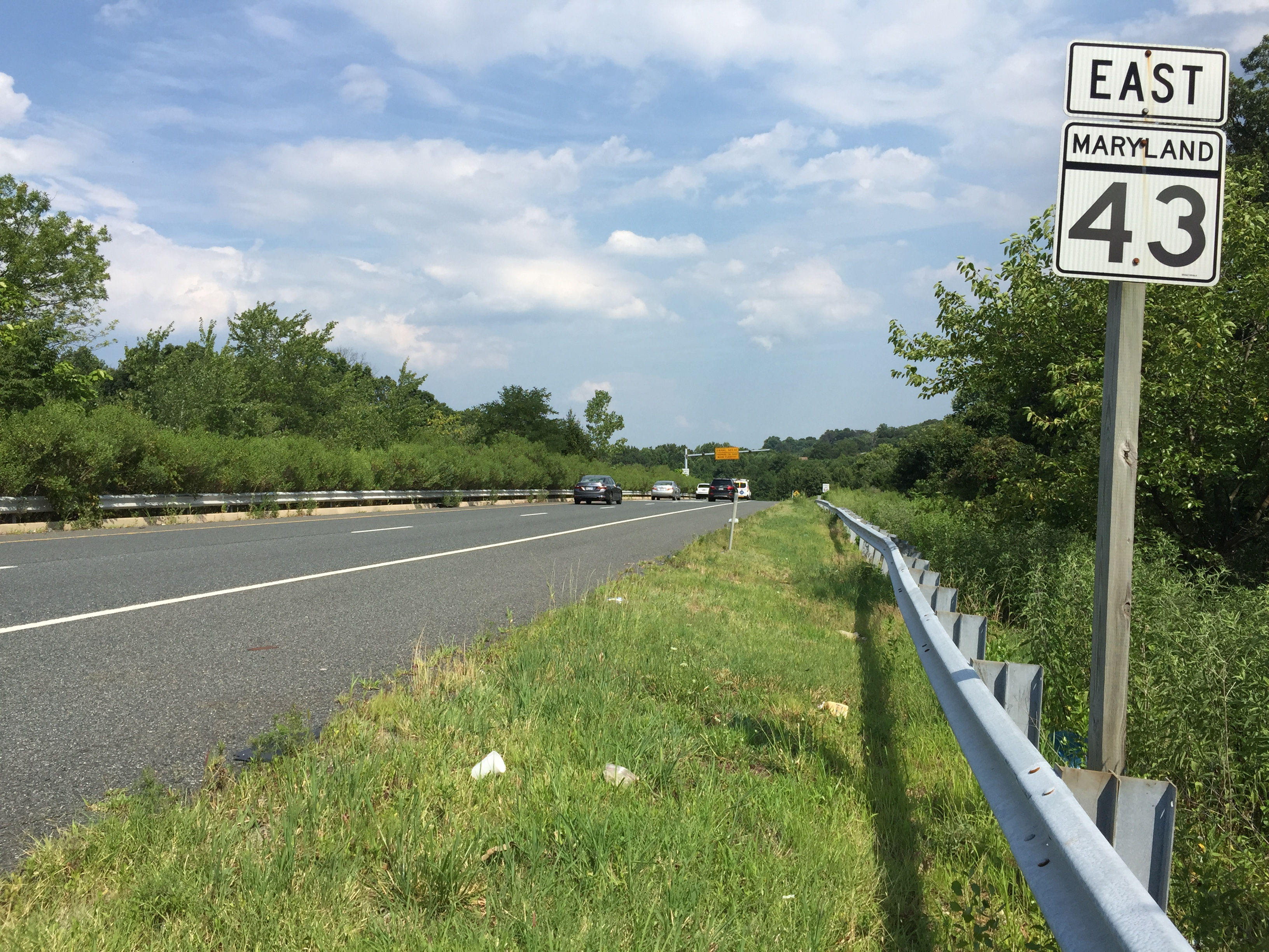 View east along Maryland State Route 43 (White Marsh Boulevard) just east of Interstate 695 (Baltimore Beltway) in Overlea, Baltimore County, Maryland